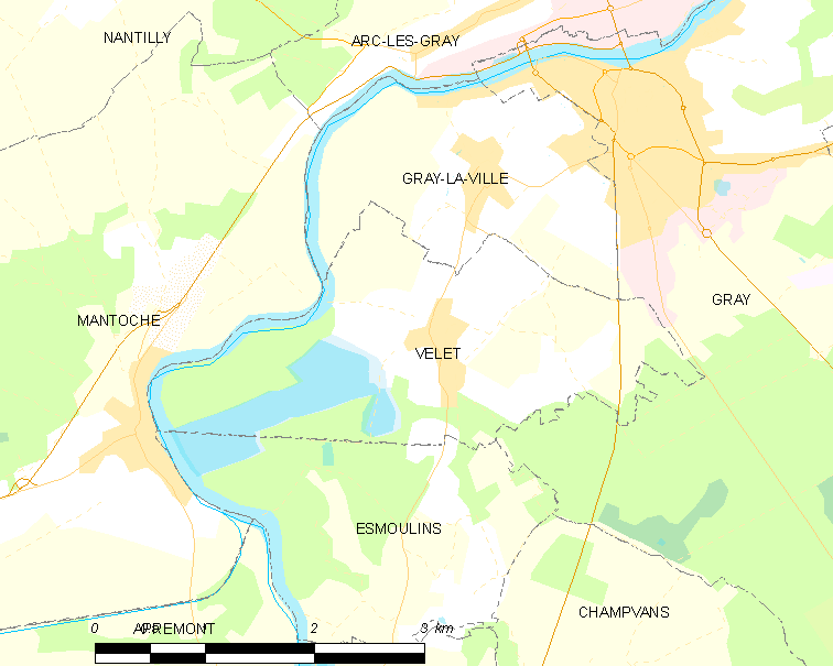 Map of French municipality